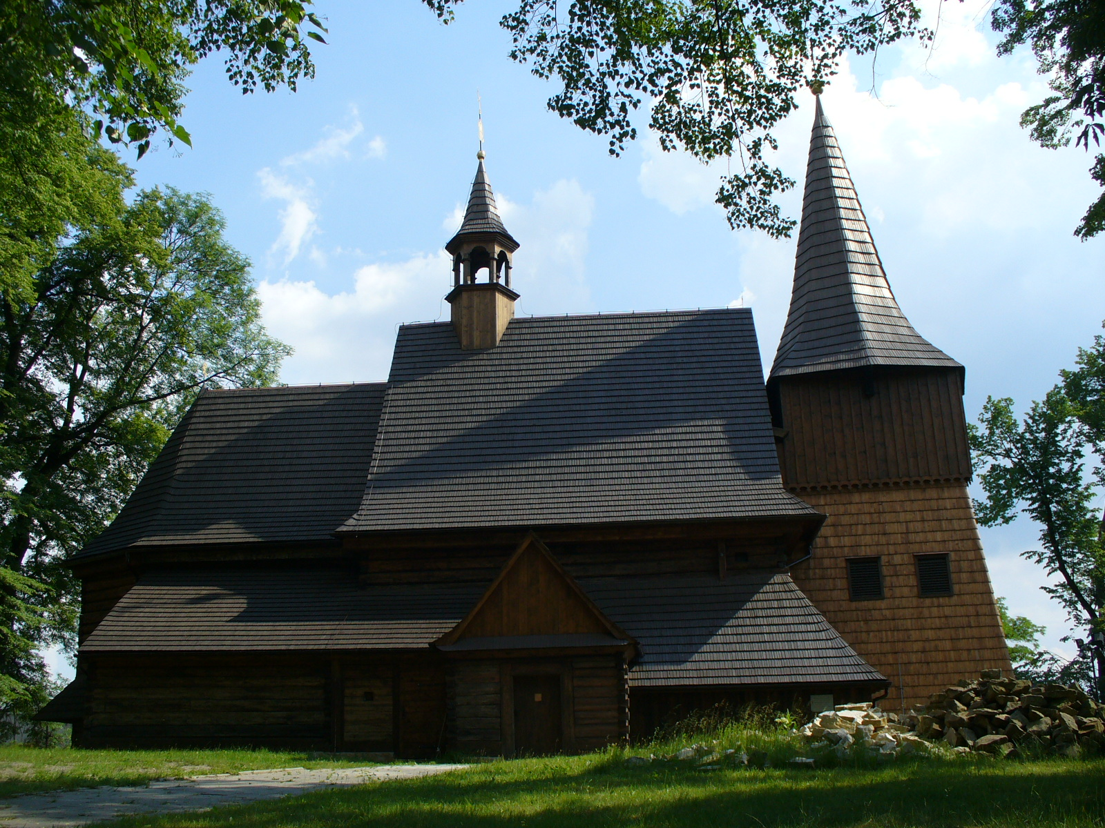 17 century Saint Michael Archangel wooden church in Żernica